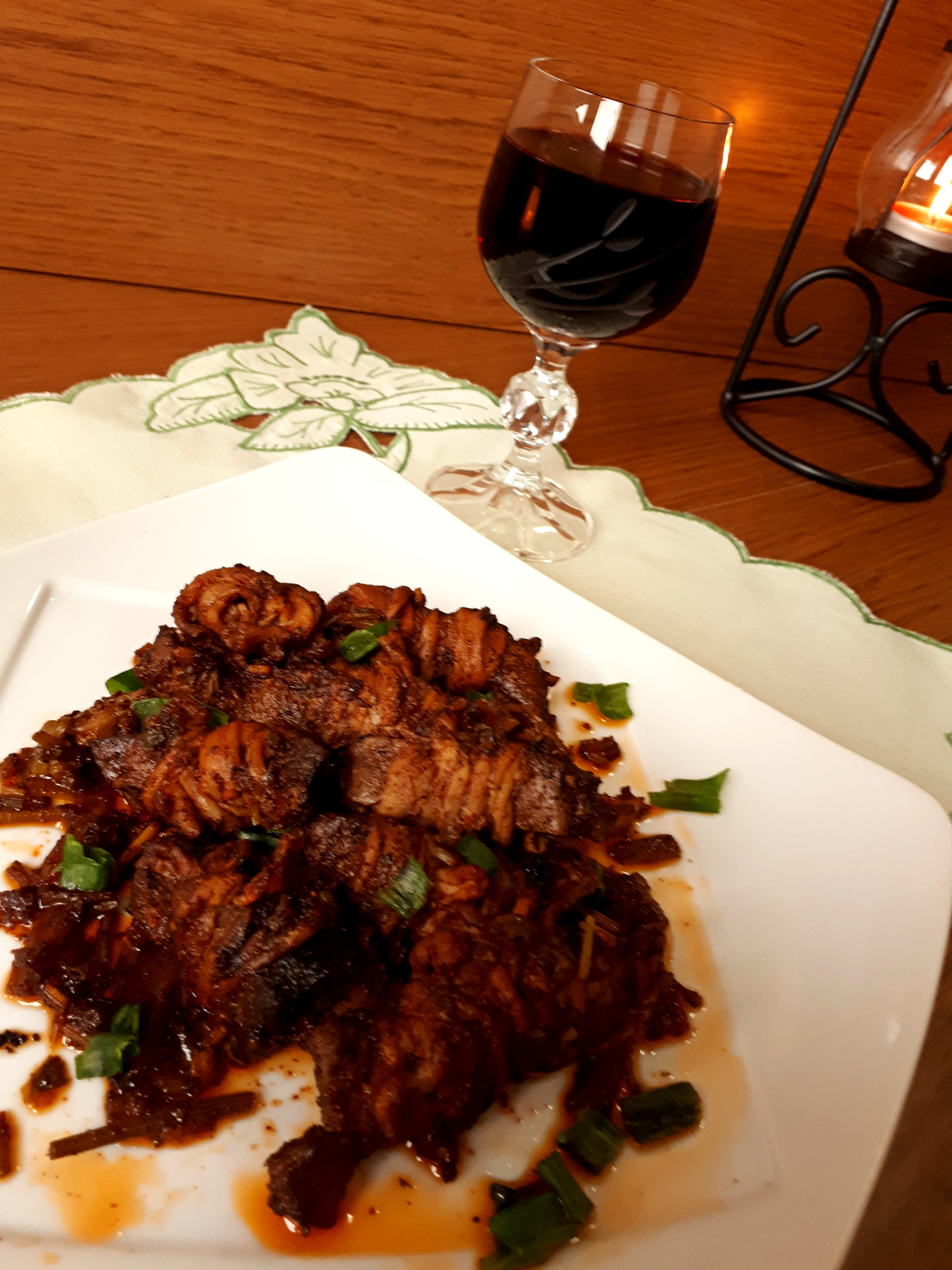 Kukurec - lamb intestines Easter delicacy - a dish of intestines wrapped around offal